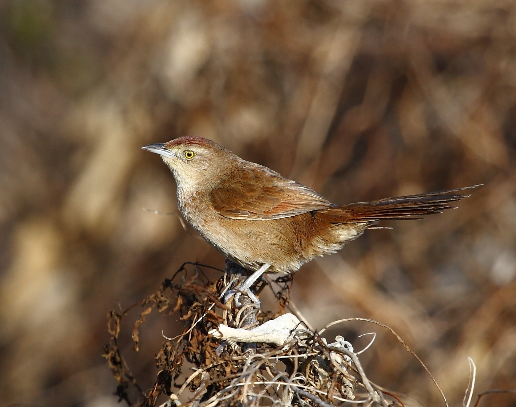 Freckle-breasted thornbird; Penino Beach, San José, Uruguay